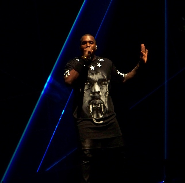 Kanye West performing at Staples Center on December 11, 2011 in Los Angeles on the Watch the Throne Tour.